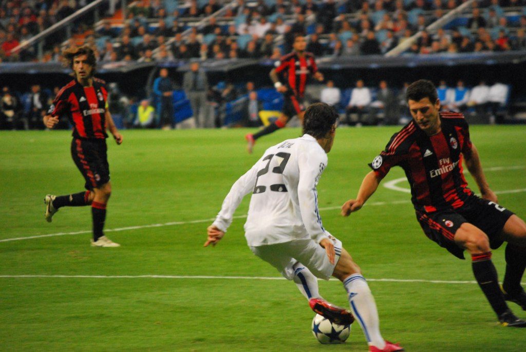 Mesut Özil and Daniele Bonera during Real Madrid CF-AC Milan, 2010–11 UEFA Champions League